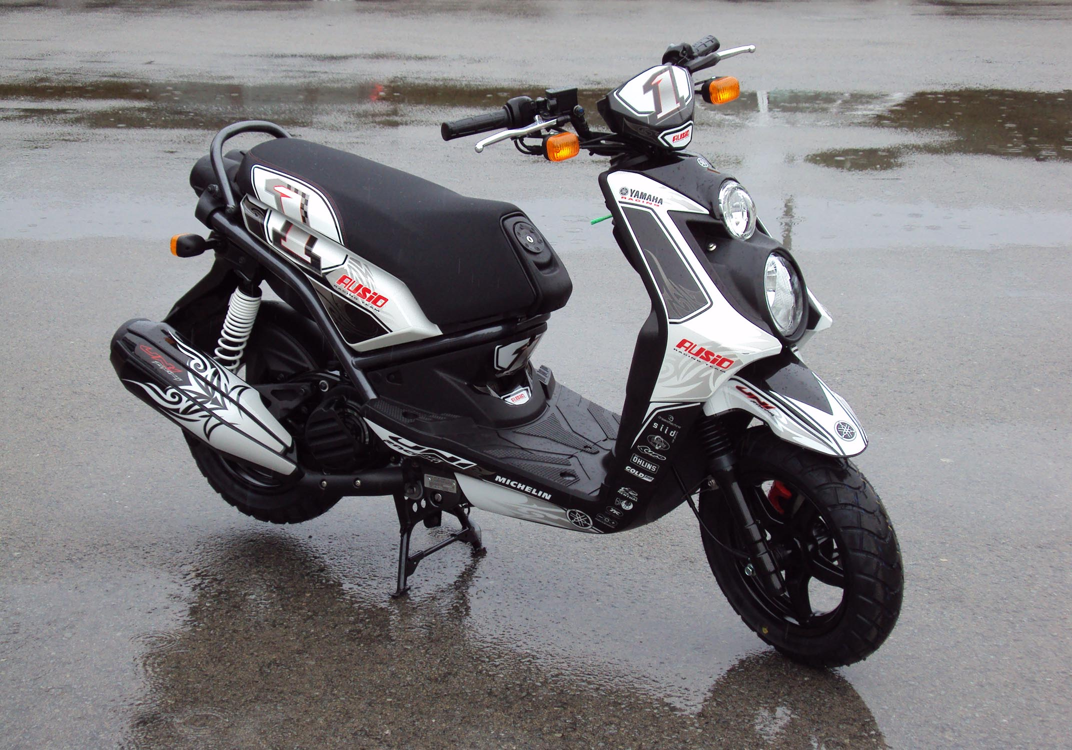 Yamaha BW 125 in Girardot, Colombia.